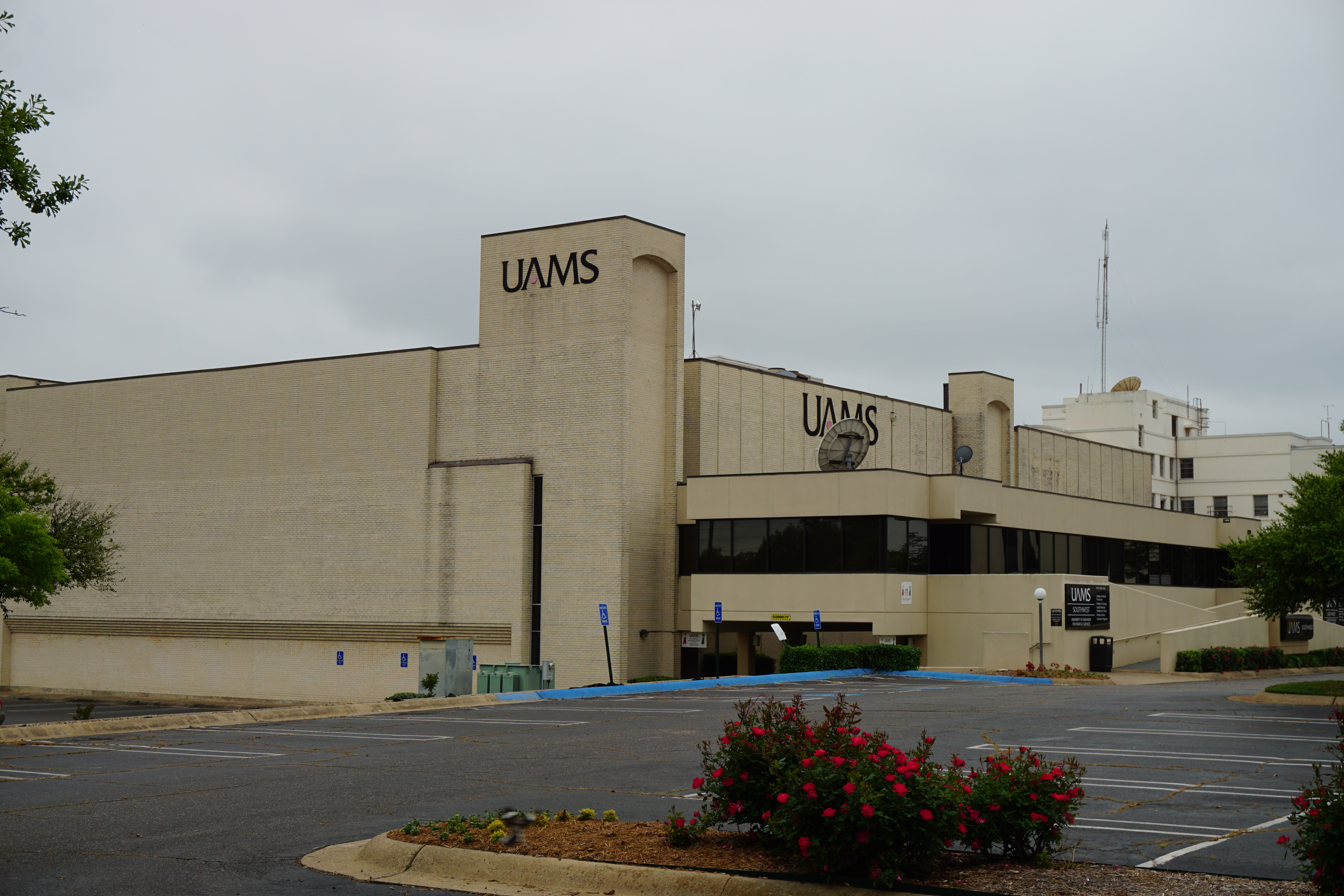 The University of Arkansas for Medical Sciences regional center in Texarkana, Arkansas (United States).